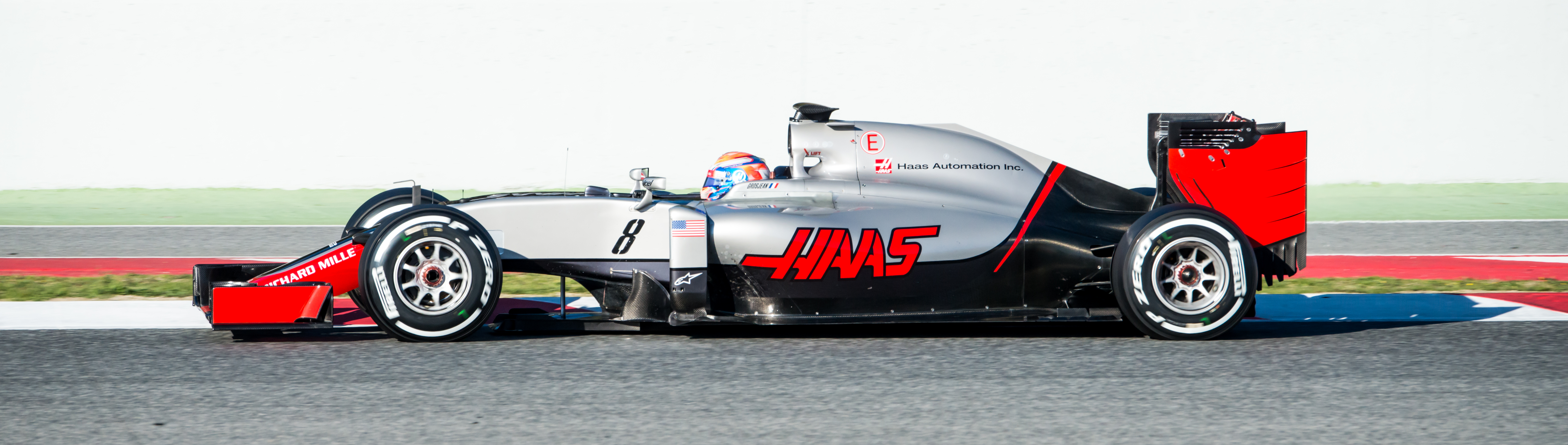 Romain Grosjean testing in a Haas VF-16 in Barcelona